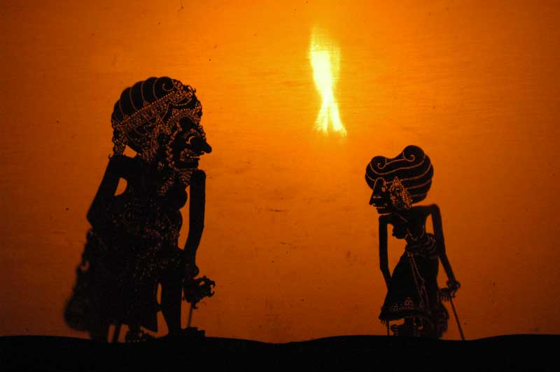 There's one puppetmaster controlling every character and speaking all the parts. Tags by Rebecca Marshall: Bali, Ubud, Wayang, Hanuman, Wayan, Wajang Ramayana play, Hindu arts in Bali Indonesia, Hinduism